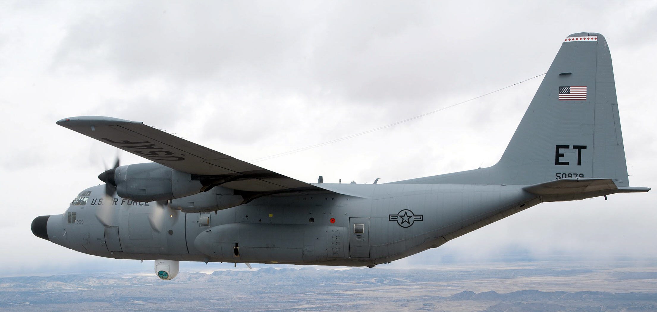 C-130 with Advanced Tactical Laser onboard